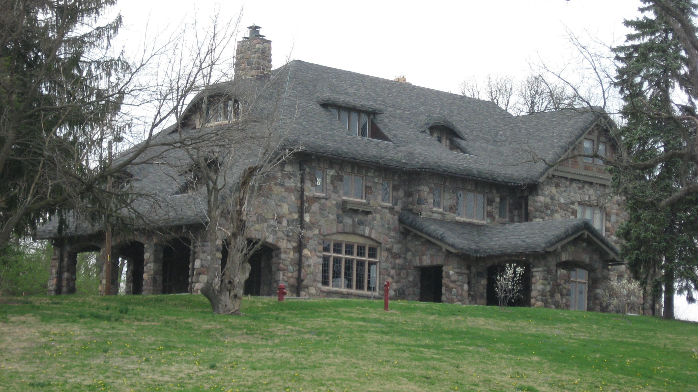 Front of Stewart Manor (the Charles B. Sommers House), located at 3650 Cold Spring Road in Indianapolis, Indiana, United States. Built in 1923, it is listed on the National Register of Historic Places.